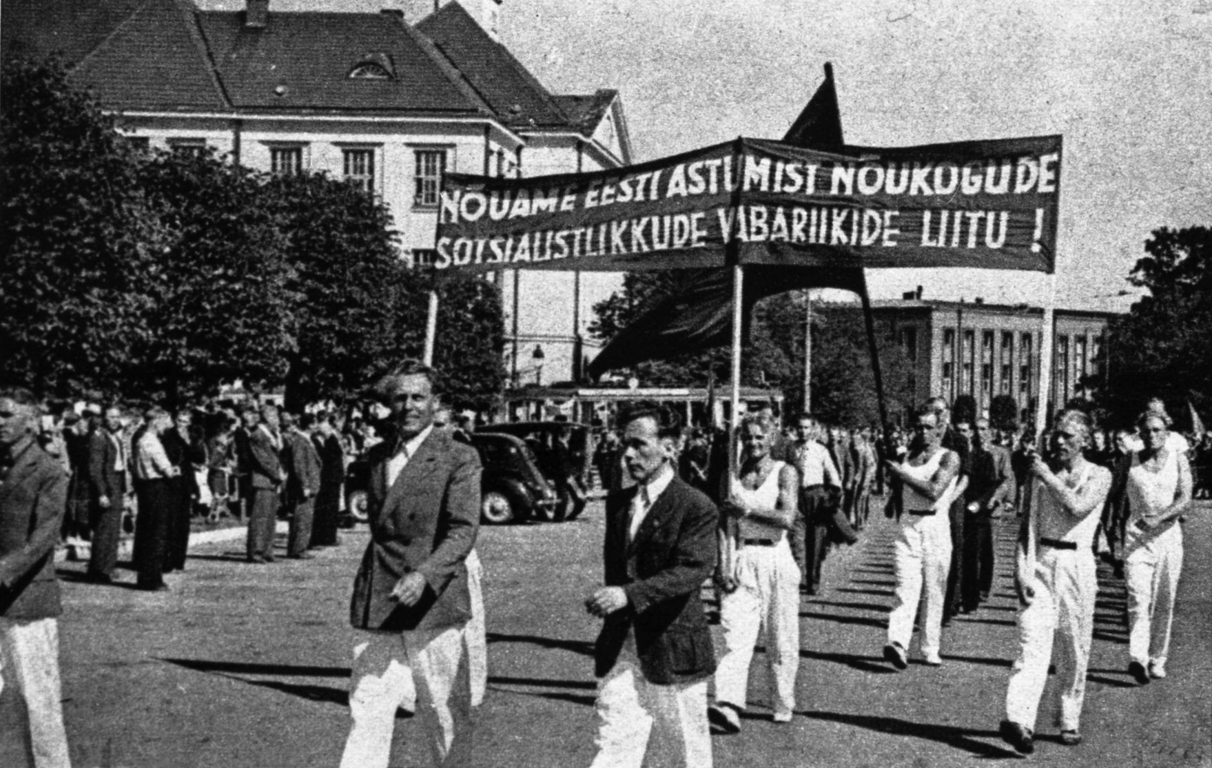 Image description as provided by the Estonian Film Archive: "Tallinn labor sports society at the Victory Square (now Liberty Square). Part of a demonstration held in Tallinn, Estonia on July 17, 1940, after the 14. - 15. July elections, demanding admission to the USSR." Text on the banner (translation): "We demand the admission of Estonia into the Union of Soviet Socialist Republics!"